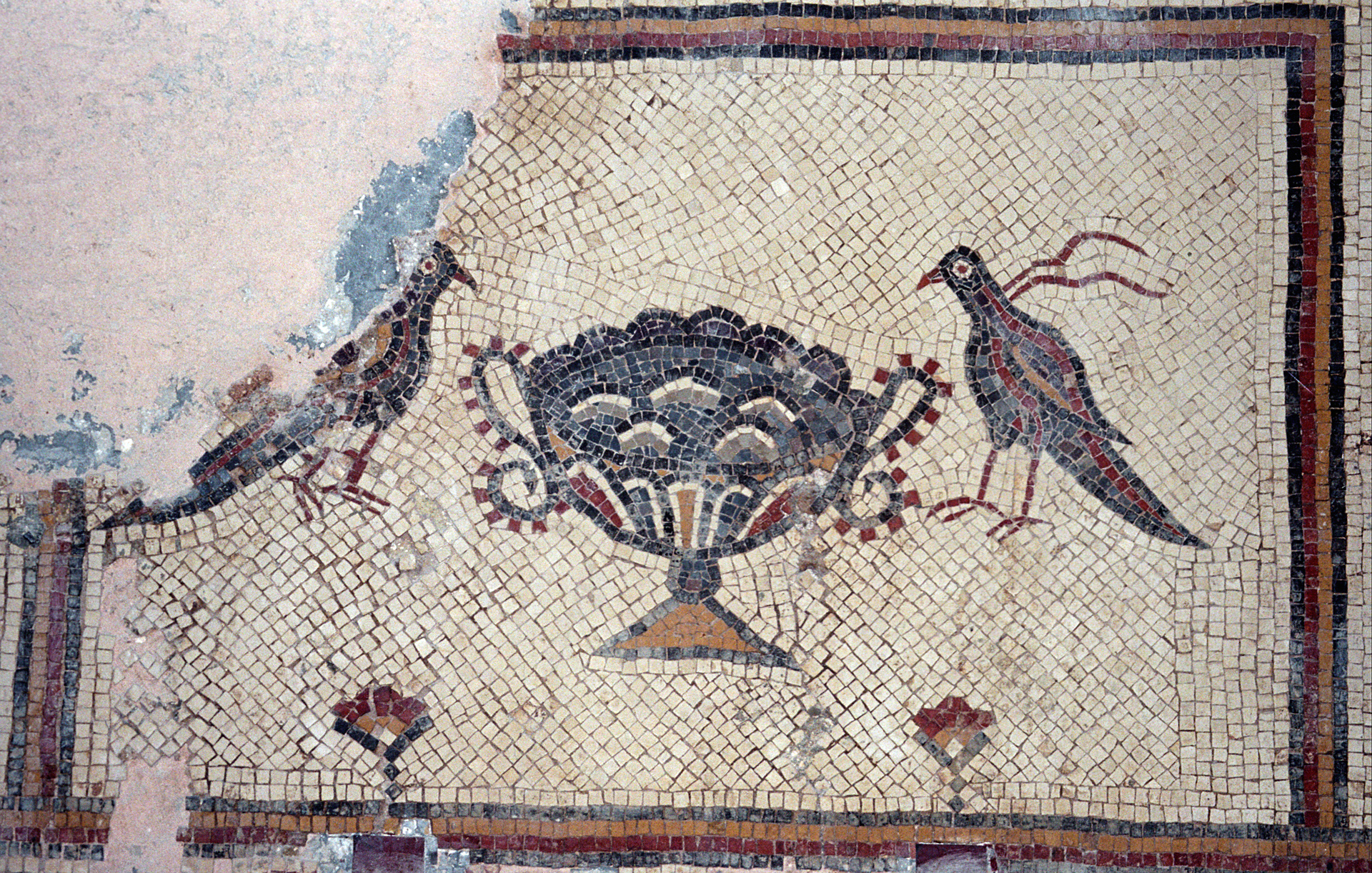 Mount Nebo, Jordan - mosaics